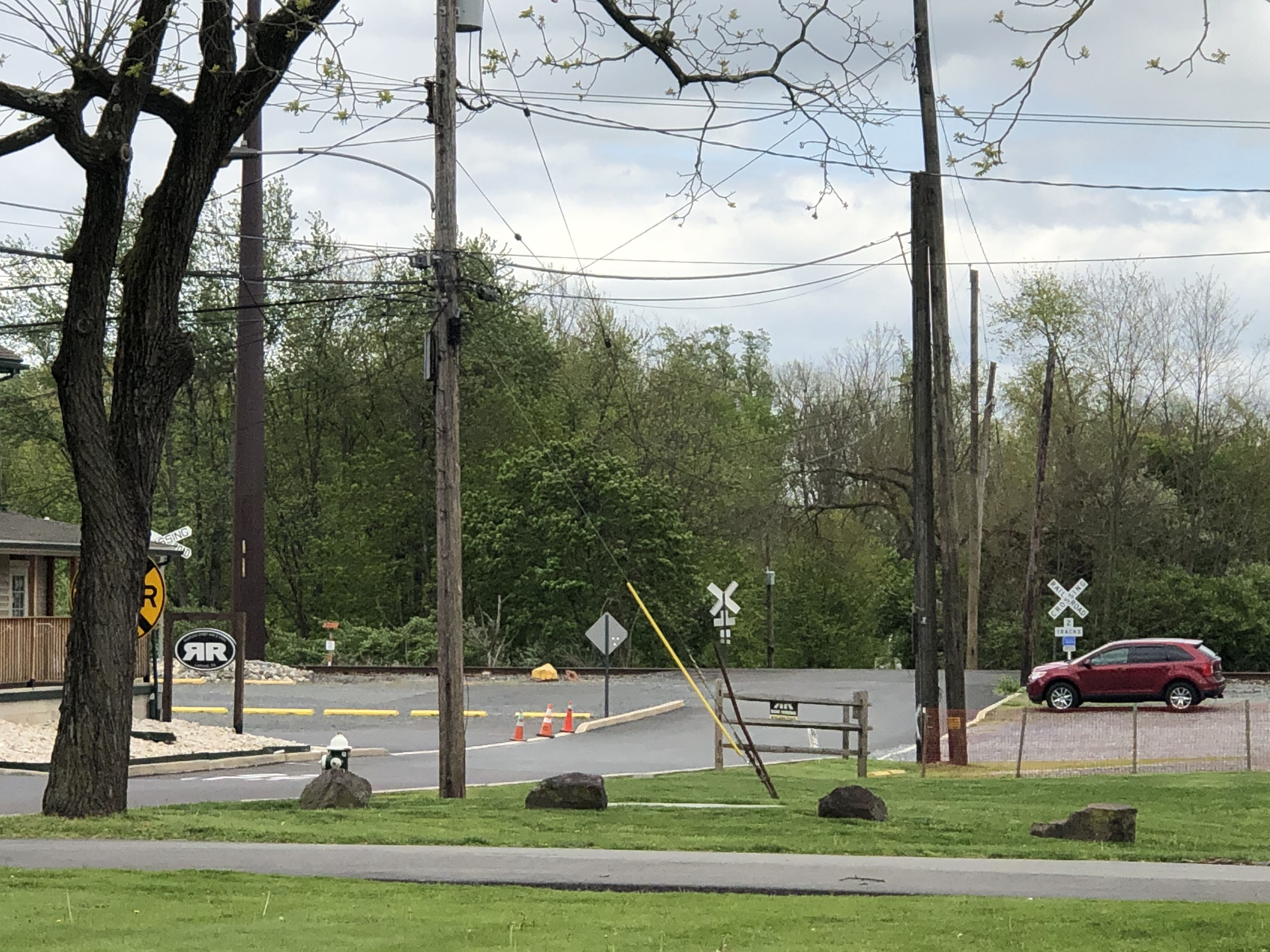 Linfield Station 2020